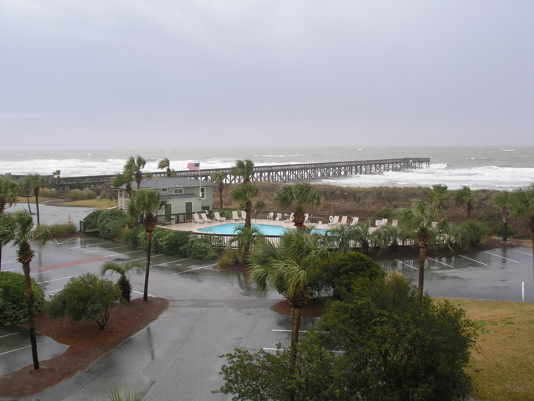 A view of Isle of Palms, South Carolina.